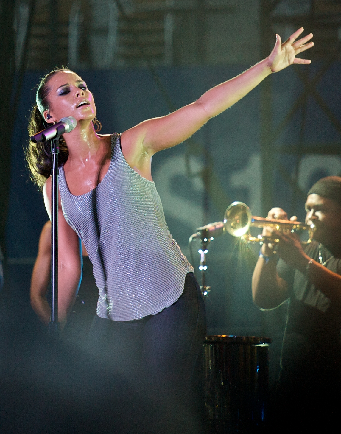 Alicia Keys ta Tokyo Summer Sonic 2008.